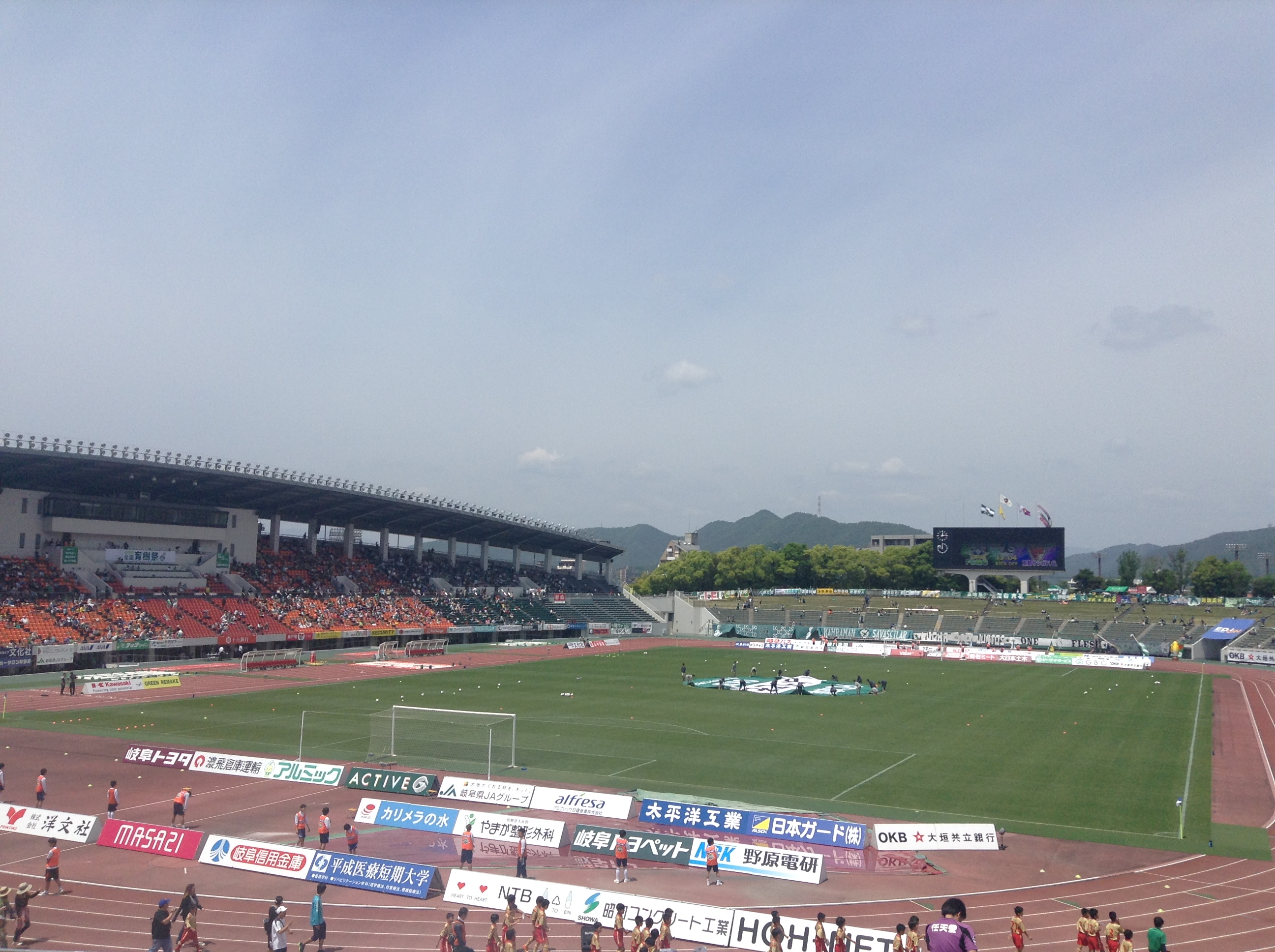 J2 League , FC Gifu vs Kyoto Sanga F.C. , 6 May, 2015.